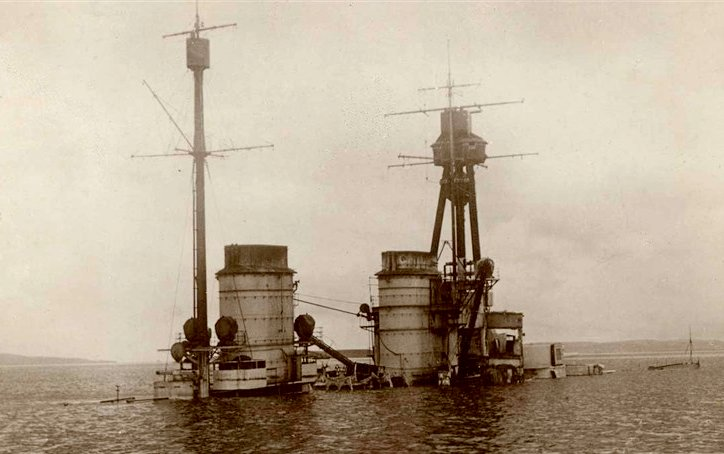 The upper-works of the German battle-cruiser Hindenburg remains above the water at Scapa Flow, after it was scuttled.